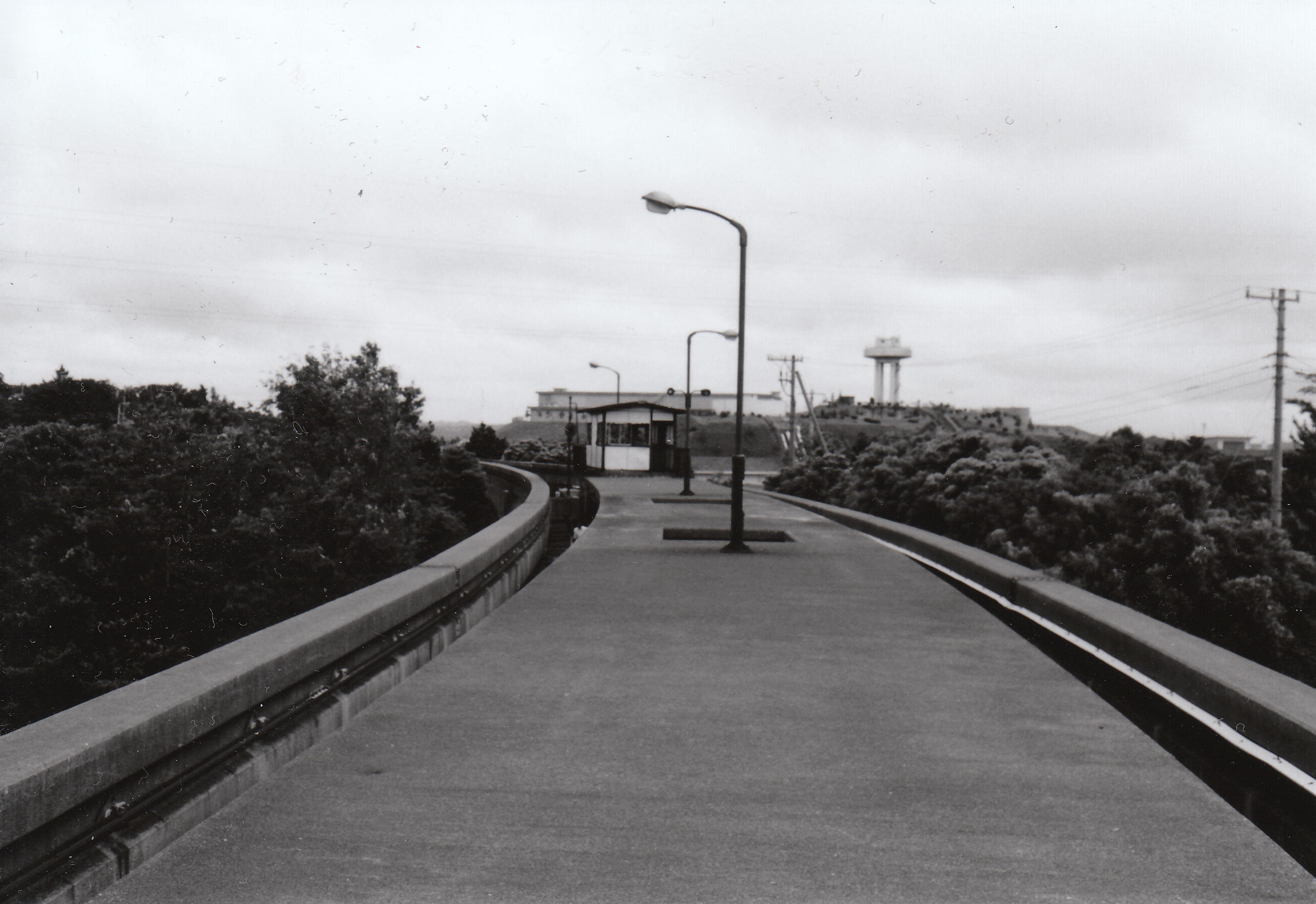 Dream Trafic Monorail Kosuzume Signal Station